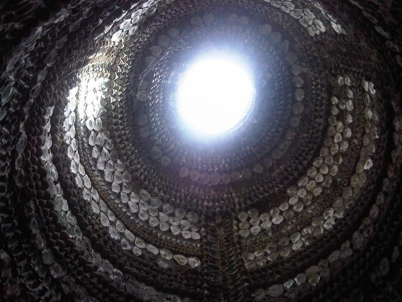 The Shell Grotto is an ornate subterranean passageway in Margate, Kent, UK. Almost all the surface area of the walls and roof is covered in mosaics created entirely of seashells, totalling about 2,000 square feet (190 m2) of mosaic, or 4.6 million shells. It was discovered in 1835 but its age remains unknown. The grotto is a Grade I listed building and is open to the public.